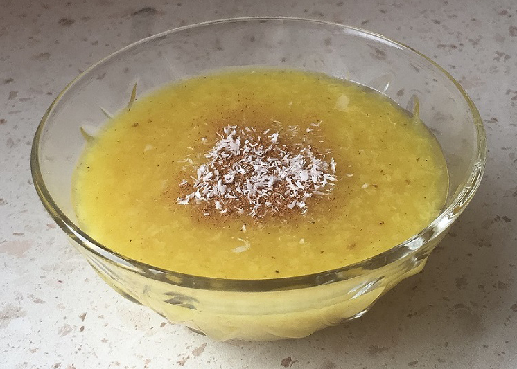 Sholezard, an Iranian traditional dessert. Fārsi: Šolezard, yek deser e Irānig.